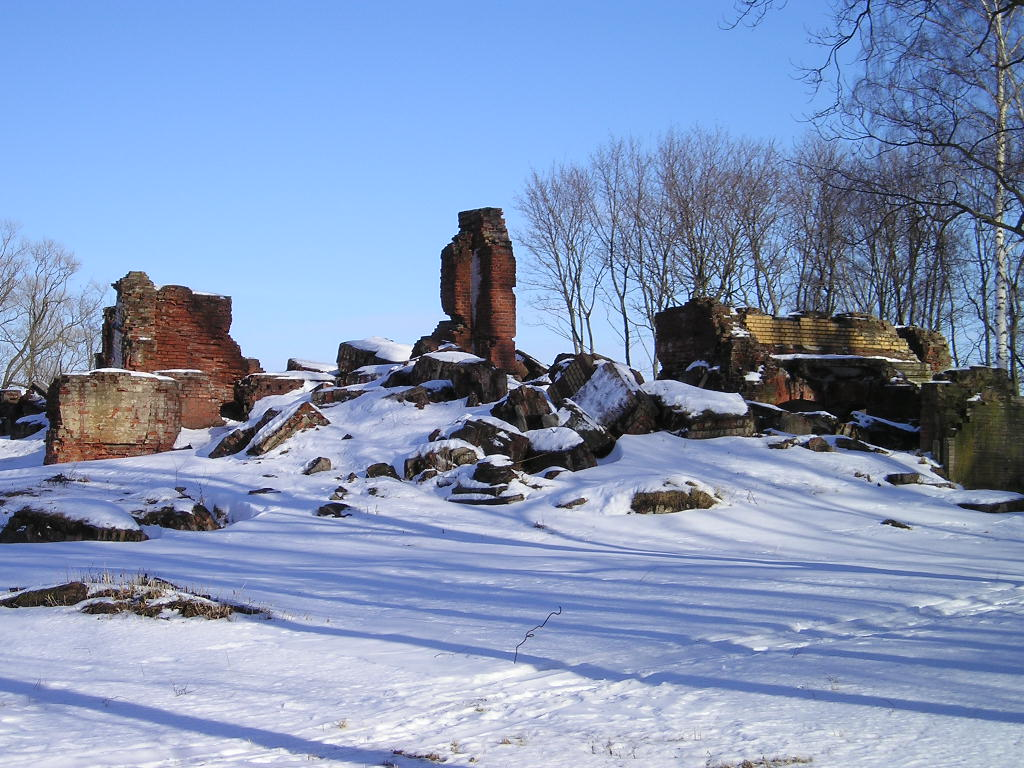 Alexandria park. Ruins of Nizhnya Dacha.